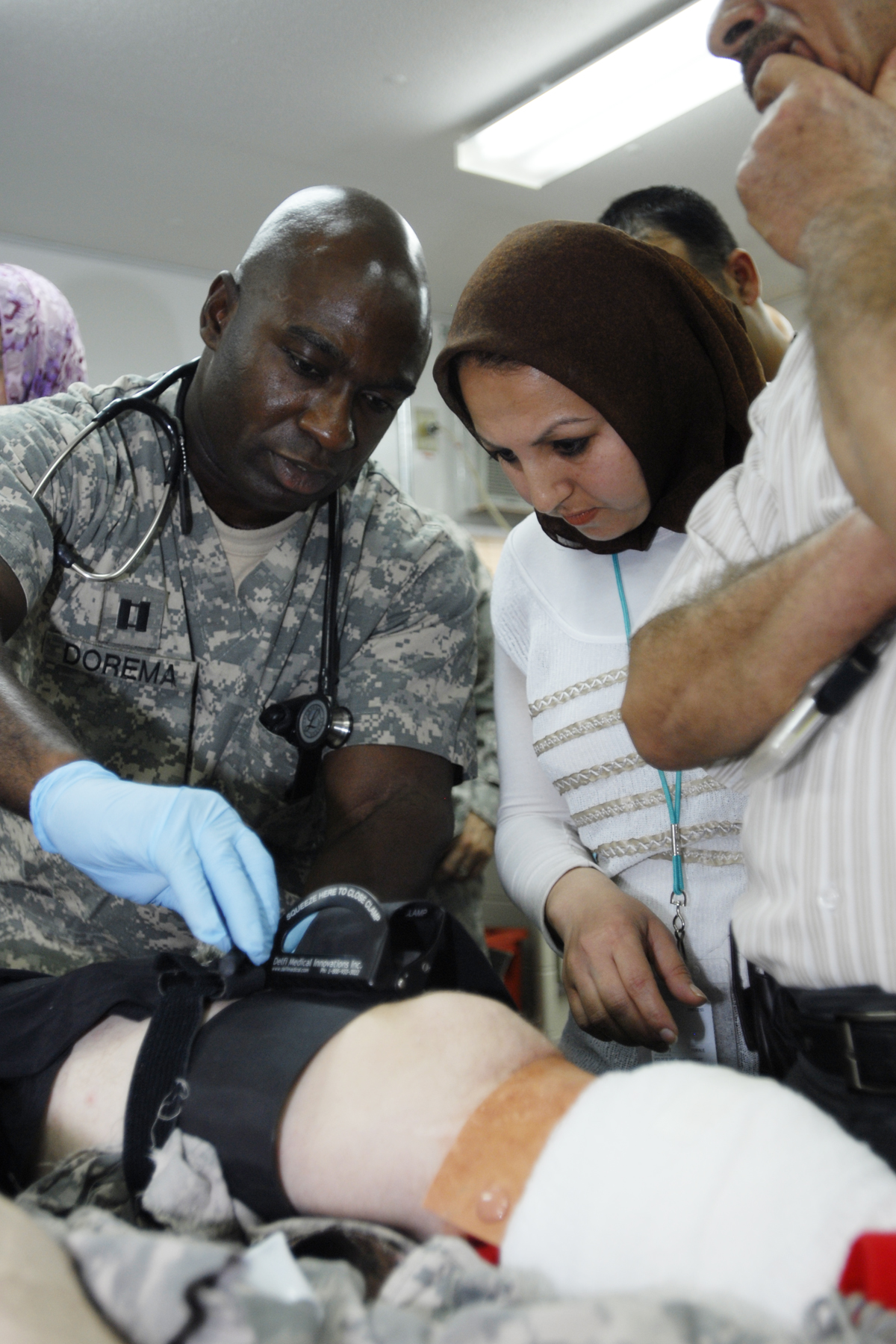 Capt. Ernest Dorema, an officer in charge of the emergency room at the 28th Combat Support Hospital and a Palm Beach, Fla., native, shows Sinna Abdul Azeez, an anesthesiologist with Yarmouk Hospital, how to use a Combat Application Tourniquet on the leg of a mock casualty during an exercise as a part of Operation Medical Alliance held at Sather Air Base, April 7. Sinna, and several other doctors from Yarmouk Hospital, visited 28th CSH for the first time to observe standard operating procedures of the hospital.